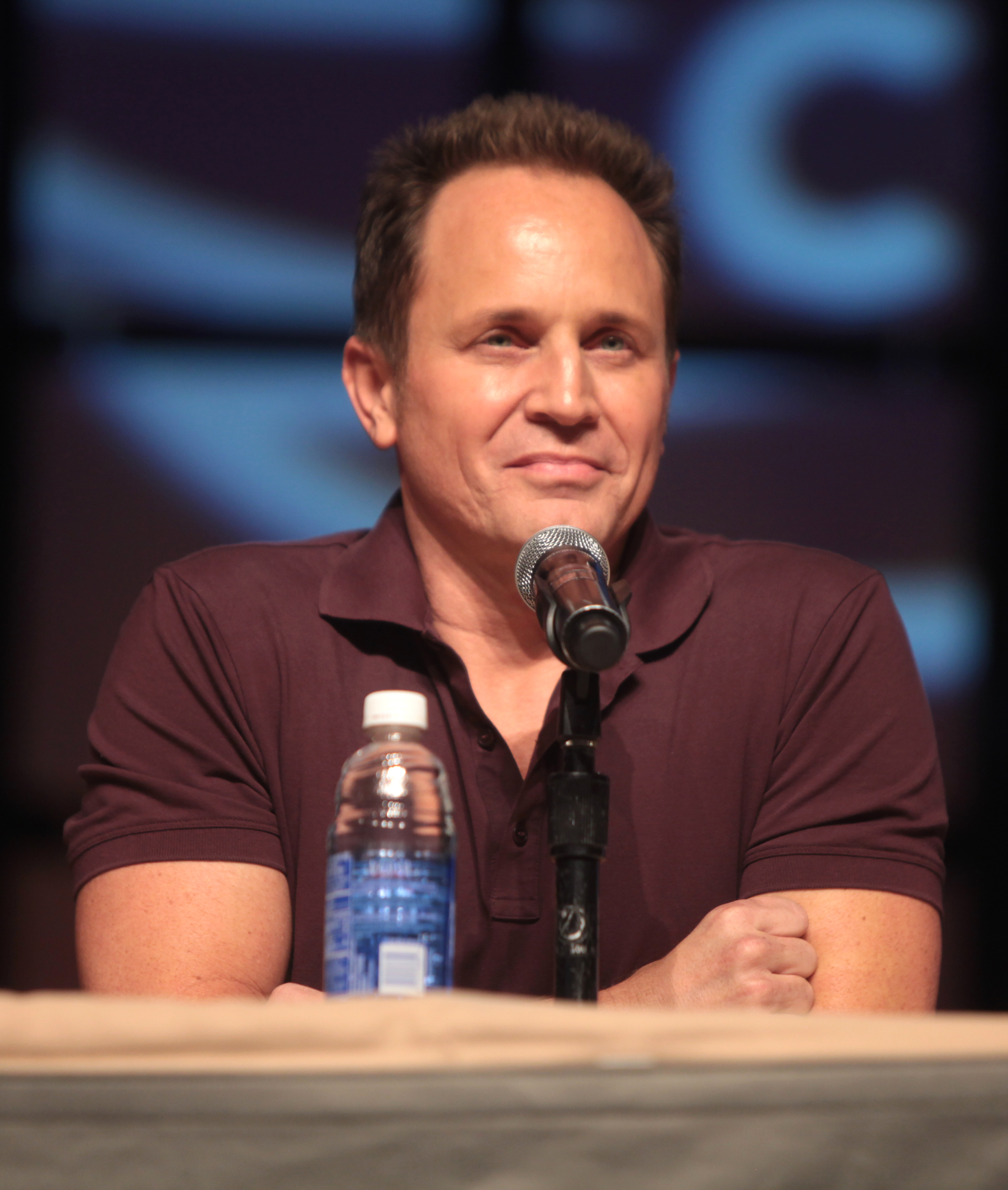 David Yost speaking at the 2014 Phoenix Comicon at the Phoenix Convention Center in Phoenix, Arizona.